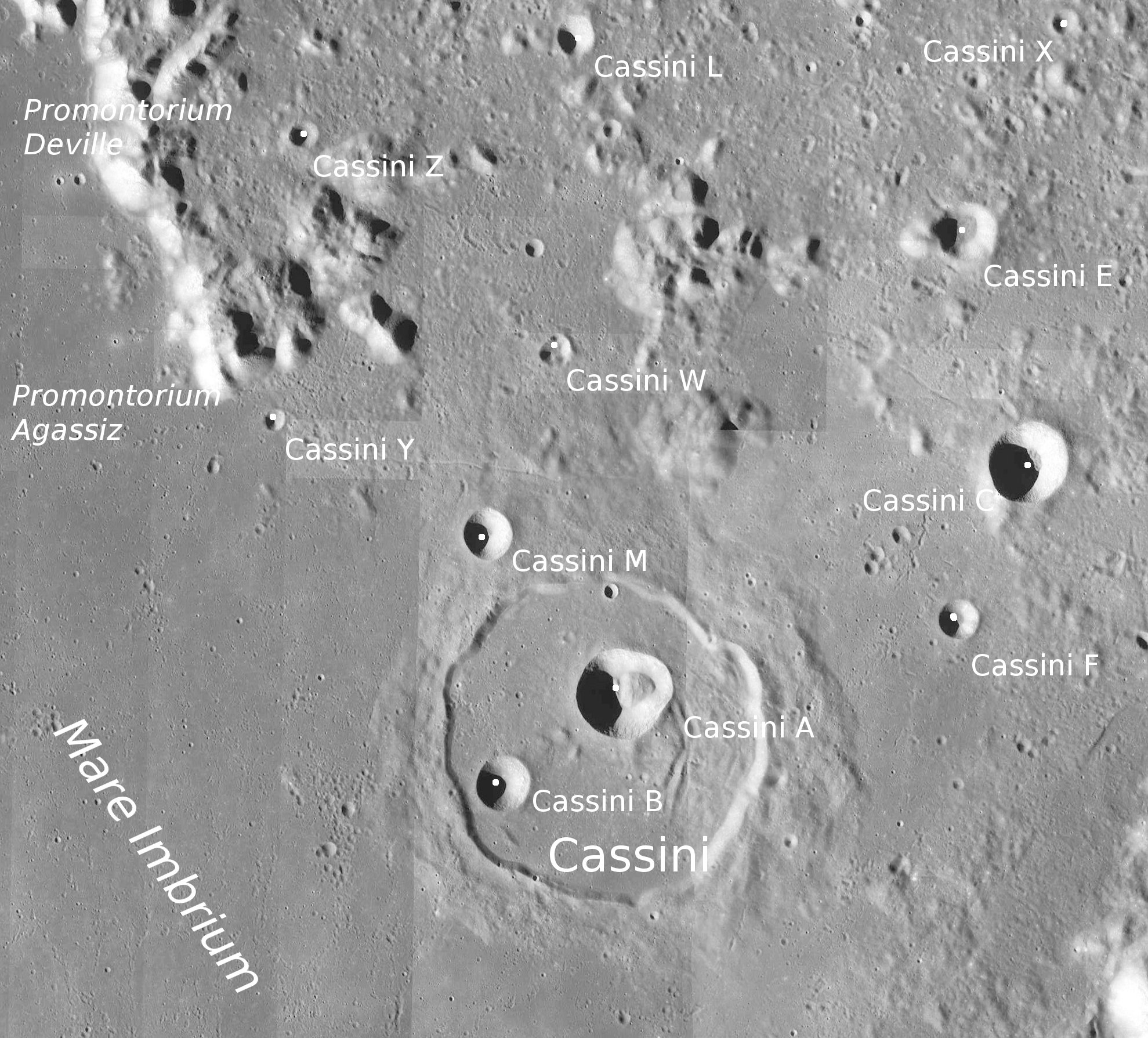 Crater Cassini with satellite features (detail of LRO - WAC global moon mosaic; Mercator projection)